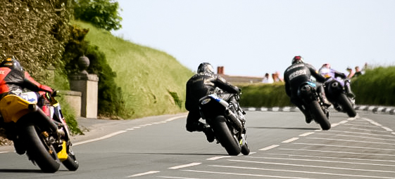 Cronk-ny-Mona, a steep hill with a sweeping left hand bend after Hillberry on the TT course. The steep hill interrupts the descent from Snaefell Mountain, which resumes at the next TT vantage point, the right turn at Signpost Corner starting the run down into the outskirts of Douglas town